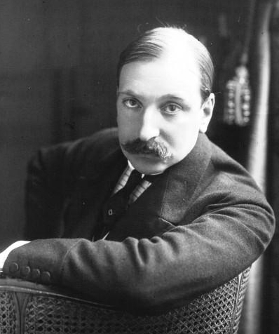 Argentine writer and diplomat Enrique Larreta (1875-1961).